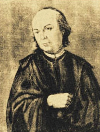 Permissions from Robert Elsie for the material related to Albanian culture (del) (cur) 19:38, 20 February 2006 . . Pjetër Bogdani (Talk) . . 200x260 (20,448 bytes) ( *Permissions from Robert Elsie for the material related to Albanian culture)